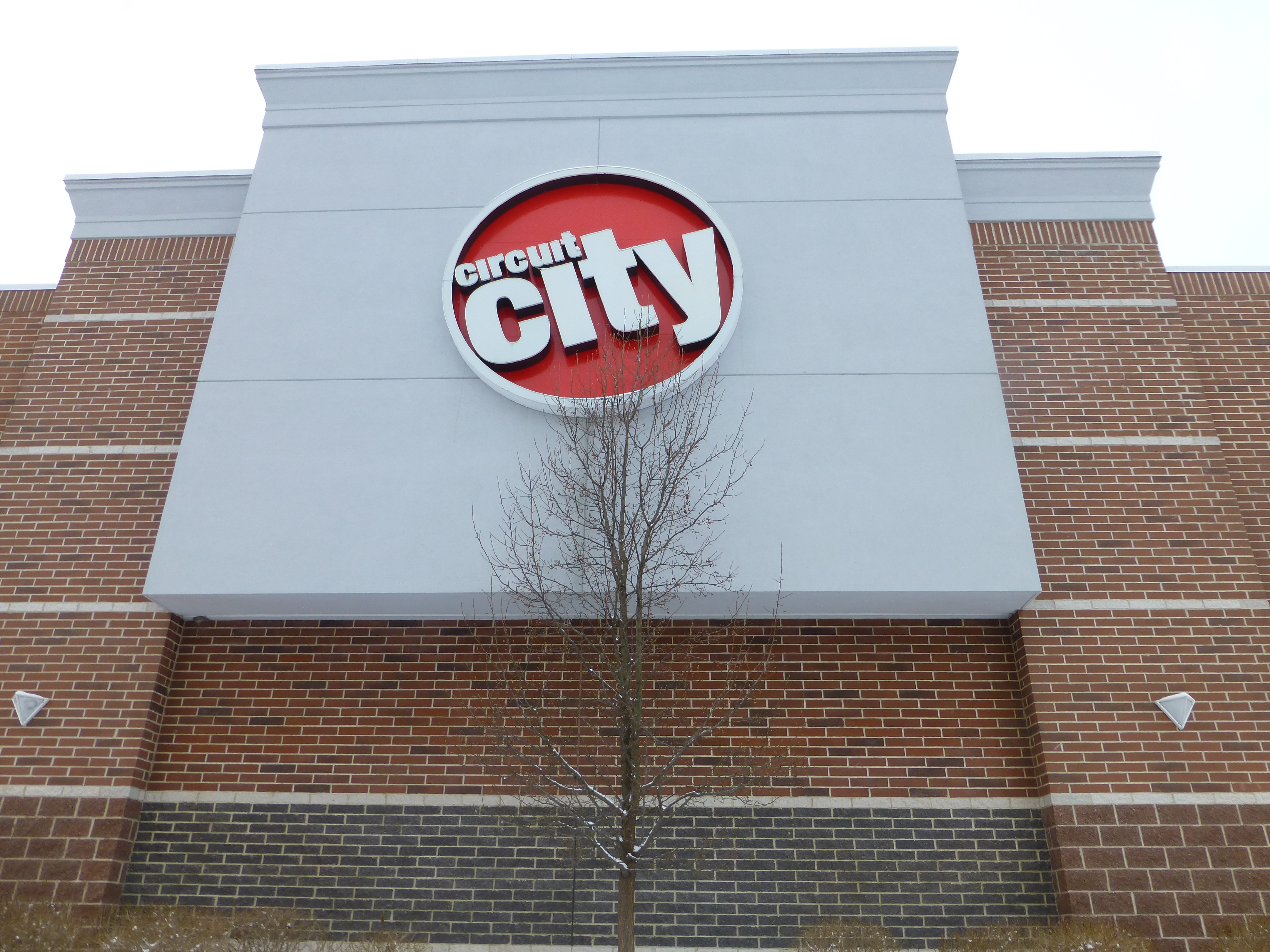 Despite being closed for years, signage remains intact (as of early 2013) on the side of this former Circuit City in Aurora, Ohio